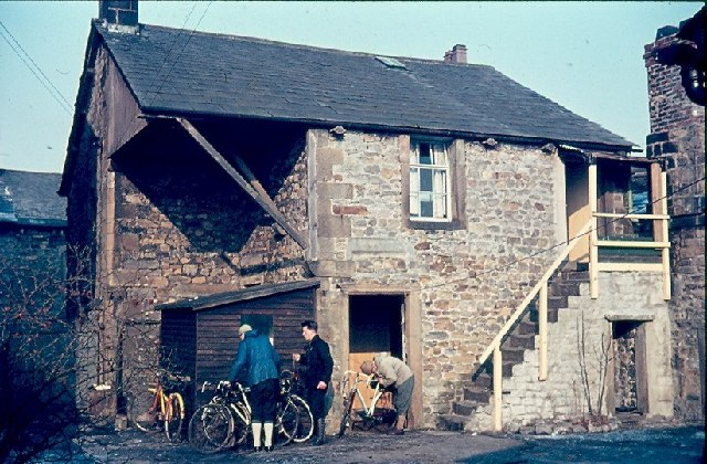 Slaidburn Youth Hostel. King's House is 17C and was formerly a village inn. This photo is of an outbuilding used as a cycle store with a dormitory above, and was taken in 1963. The hostel is still in use.